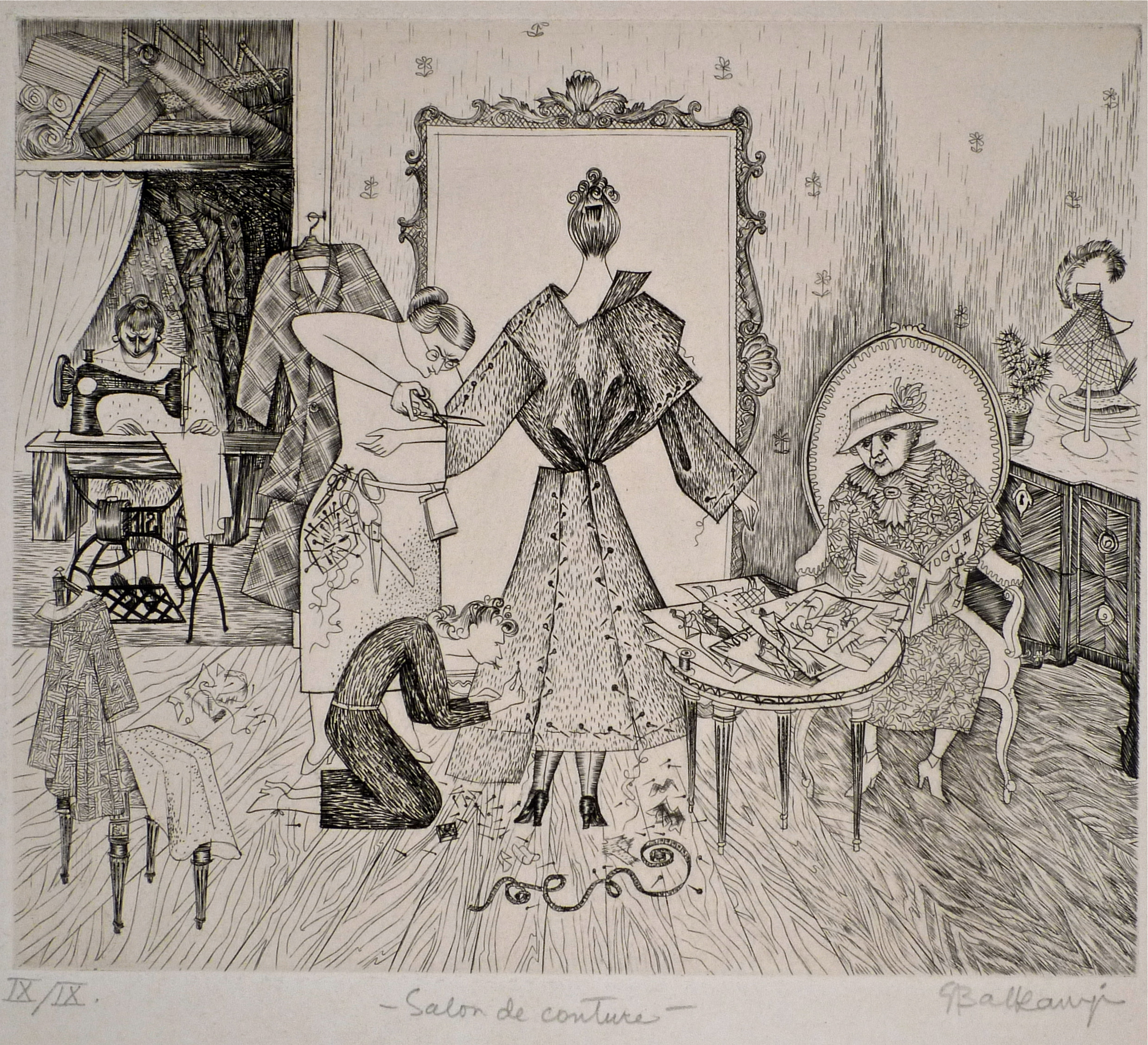 "Le salon", 1959, Etching by Suzanne Balkanyi. 18.5cm x 22 cm. Edition of 9 plus artist's proofs.